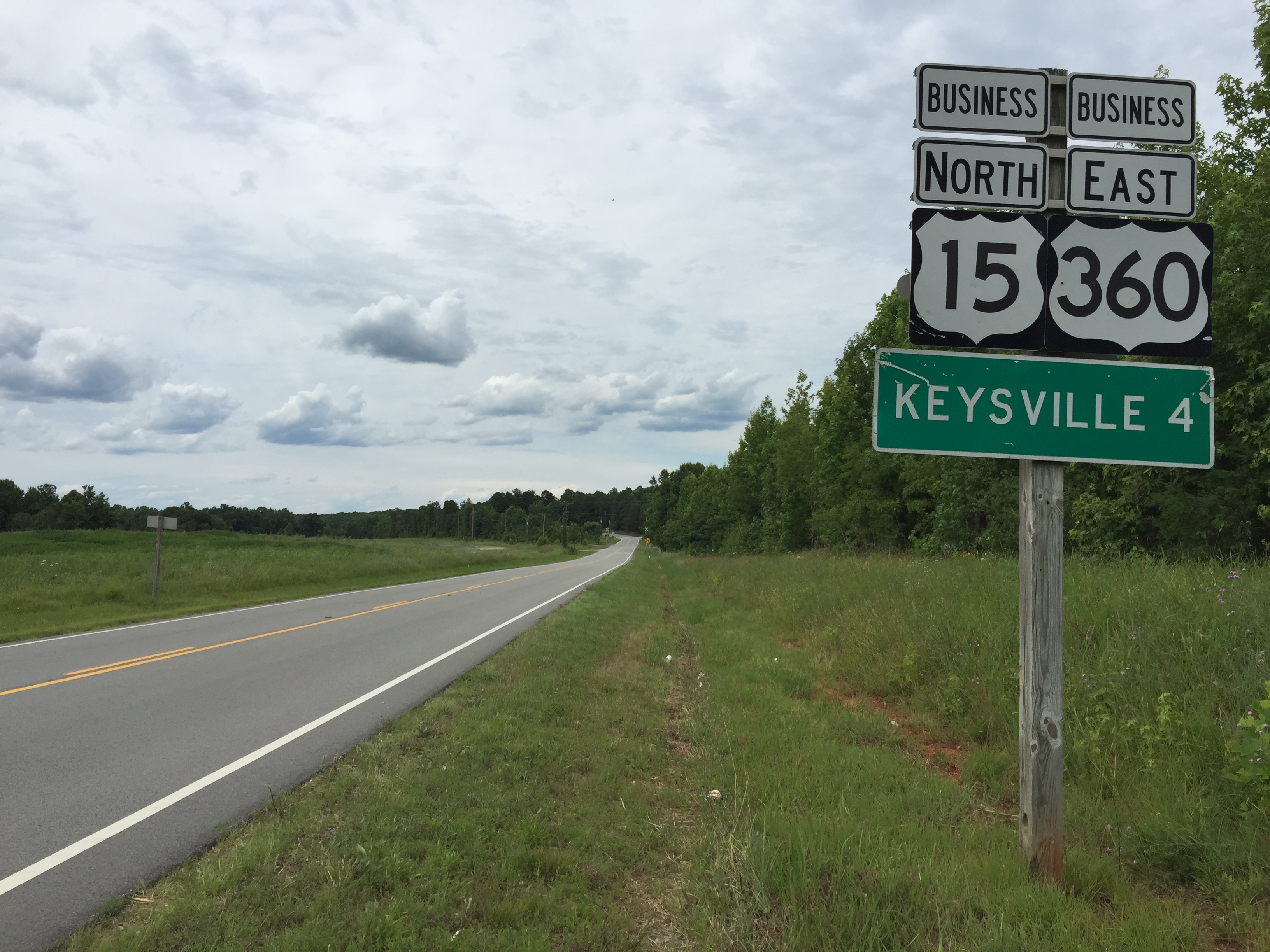 View north along U.S. Route 15 Business and east along U.S. Route 360 Business (Old Kings Highway) just northeast of Ontario Road (Virginia State Secondary Route 622) in Ontario, Charlotte County, Virginia